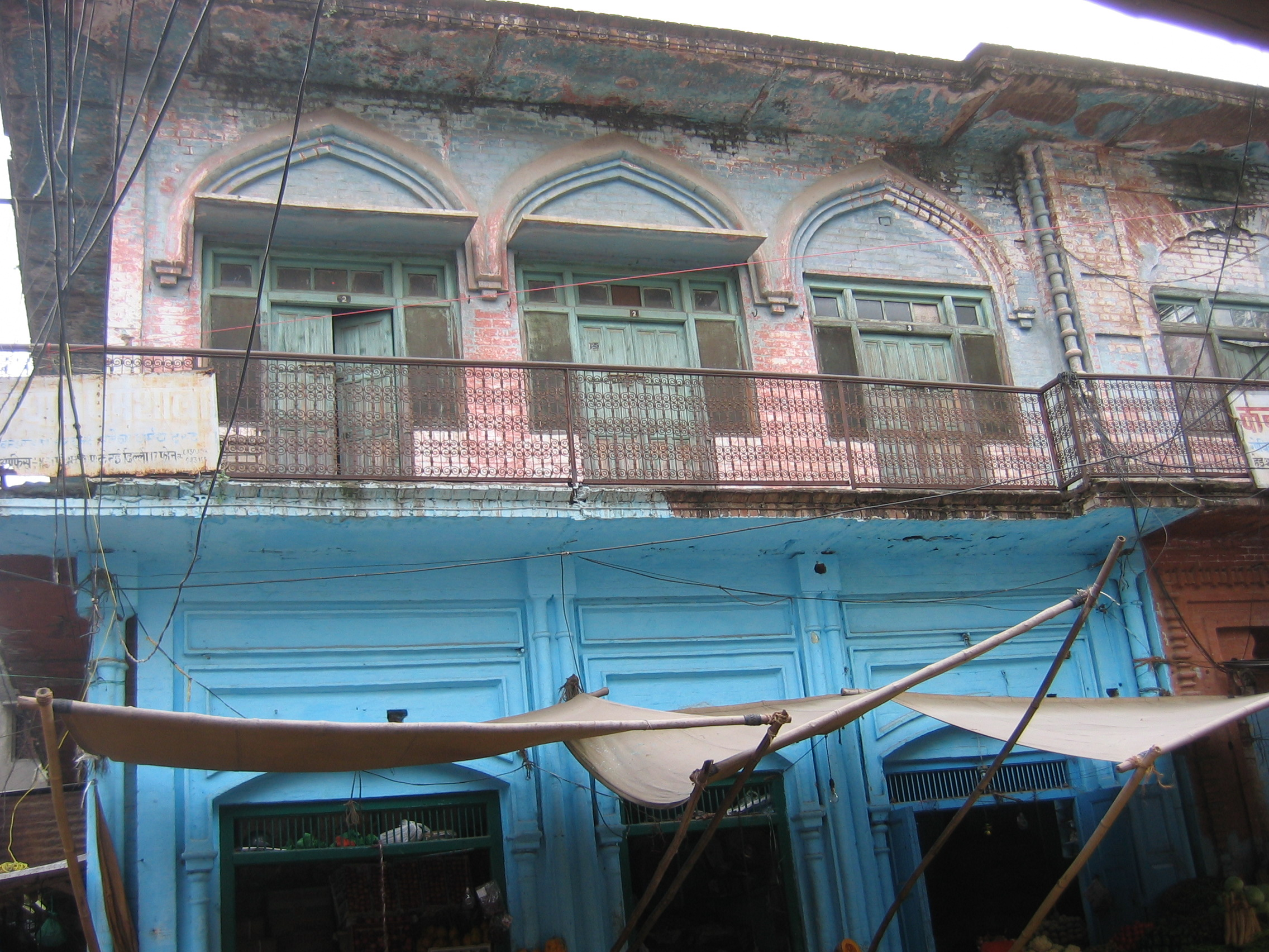 Dharamshala (Rest House for pilgrims), Haridwar. Noticeable for its rare use to rich blue paint, common in Rajasthan, rarely seen in modern constructions. Plus the awnings held with bamboo poles, were common features in 19th century markets all over India, but now seldom seen in modern parts of the city. A recent blue coat of the upper floor walls have faded away to reveal the original pink colour, reminiscent of Jaipur walls, perhaps the building originally belonged to someone from the region.